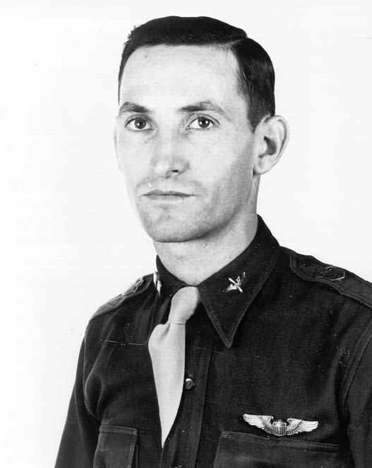 George Andrew Davis, Jr., United States Air Force, Korean War Medal of Honor recipient.